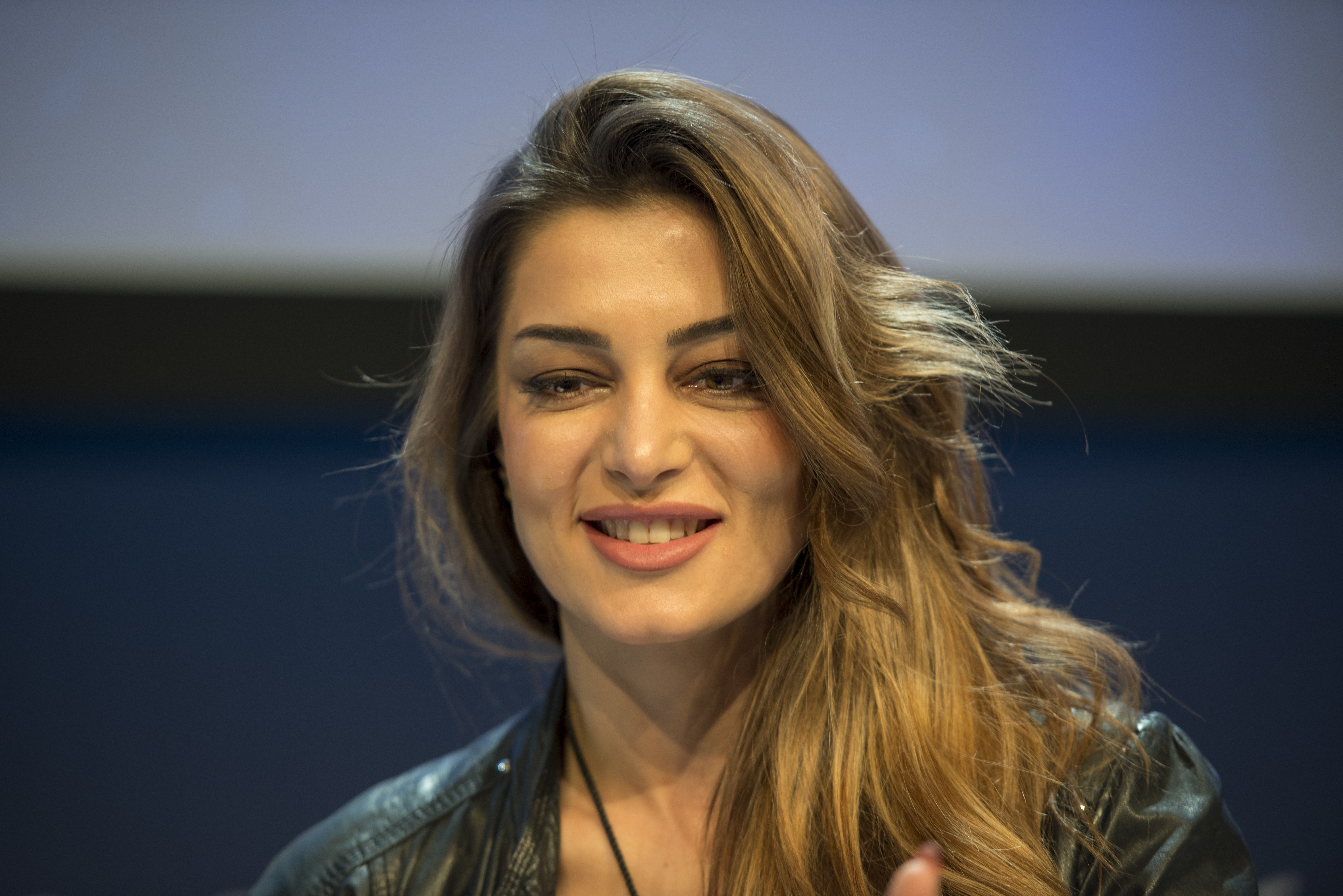 Iveta Mukuchyan at a Meet & Greet during the Eurovision Song Contest 2016 in Stockholm. (Help translate this text)